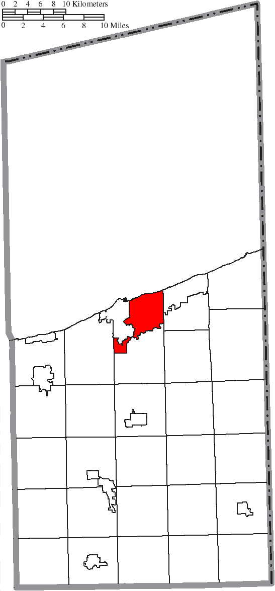 Map of the municipal and township boundaries of Ashtabula County, Ohio, United States, as of the 2000 census, with the location of Ashtabula Township highlighted. Township borders are shown only in unincorporated areas in order to differentiate incorporated and unincorporated areas more clearly.